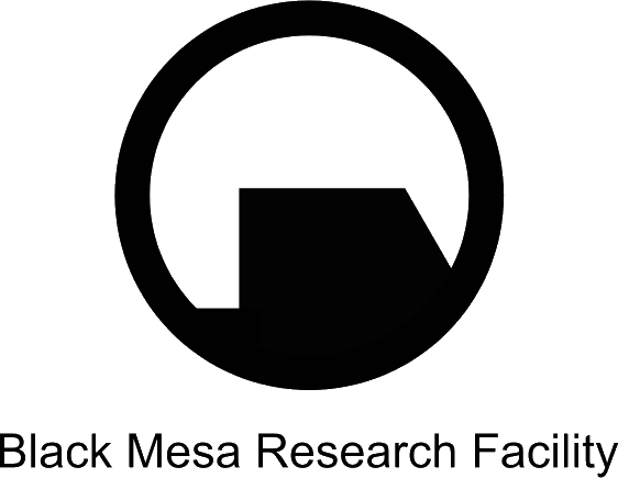 The Black Mesa Logo from the video game Half-Life.